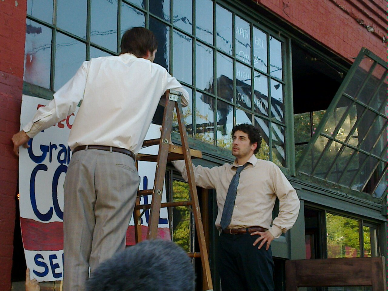 Jason Biggs and Joel Moore in Capitol Hill, Seattle at Grassroots movie shoot